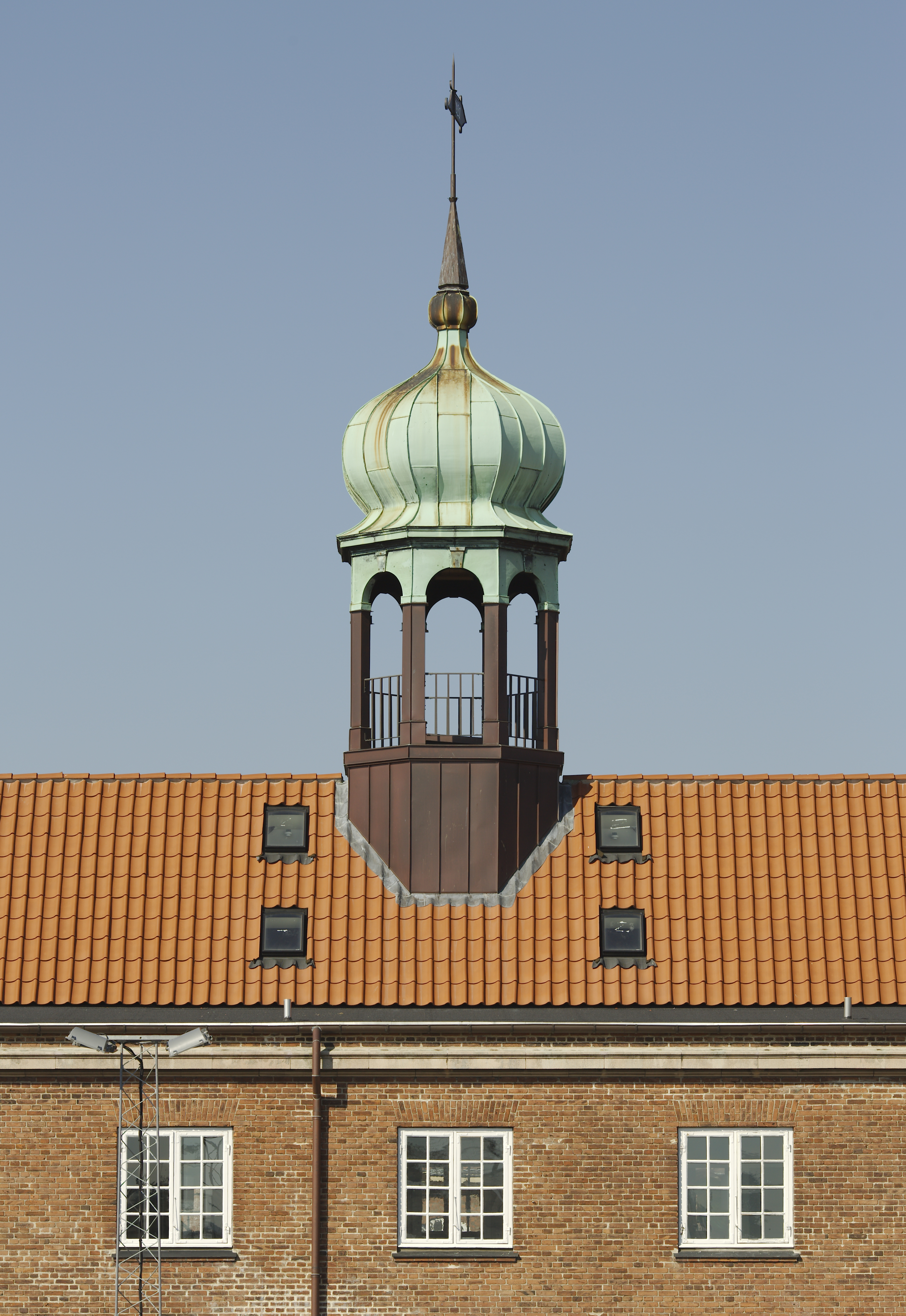 Roof lantern on Godsbanens building in Aarhus